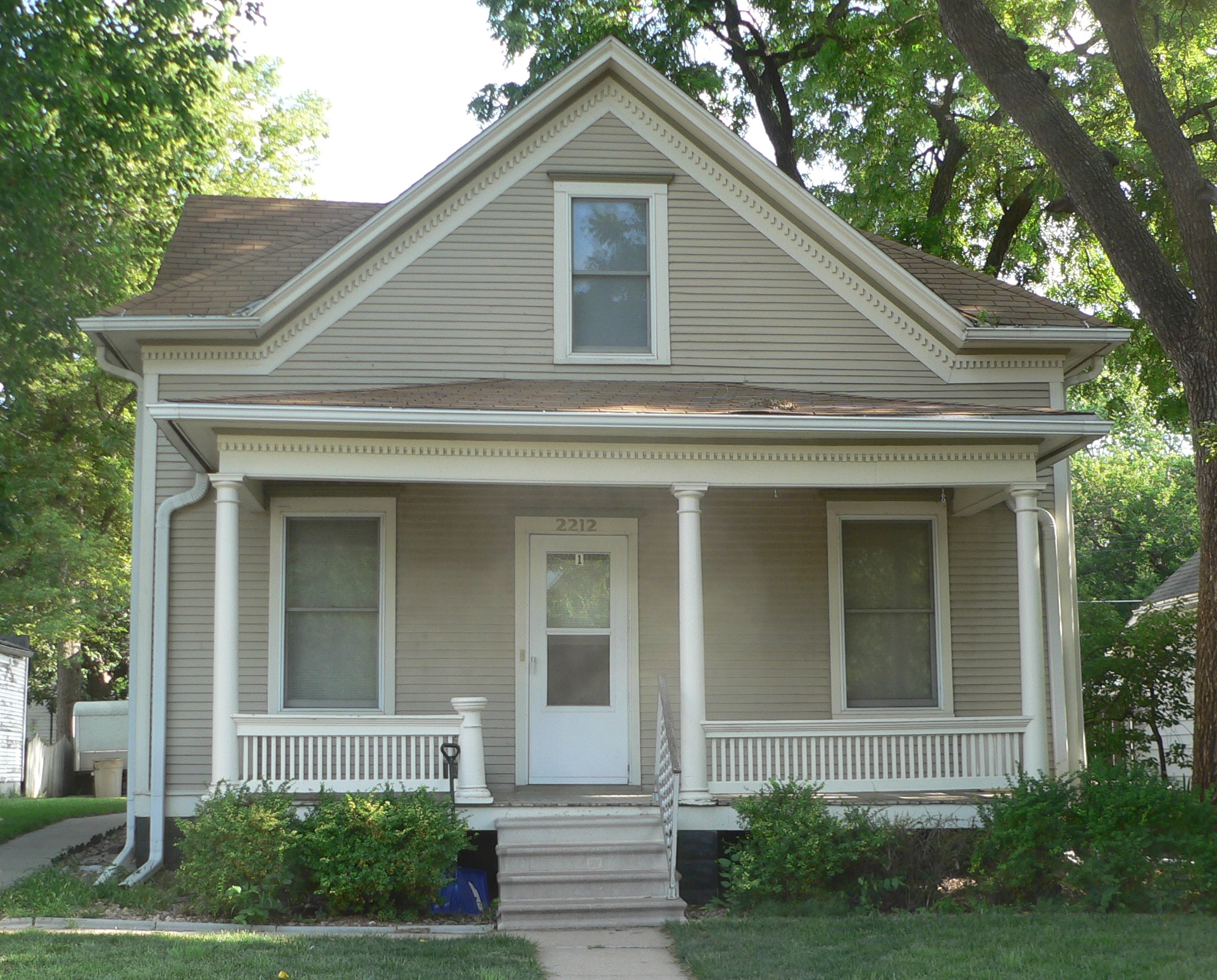 Jasper Newton Bell house, located at 2212 Sheldon Street in Lincoln, Nebraska; seen from the south.